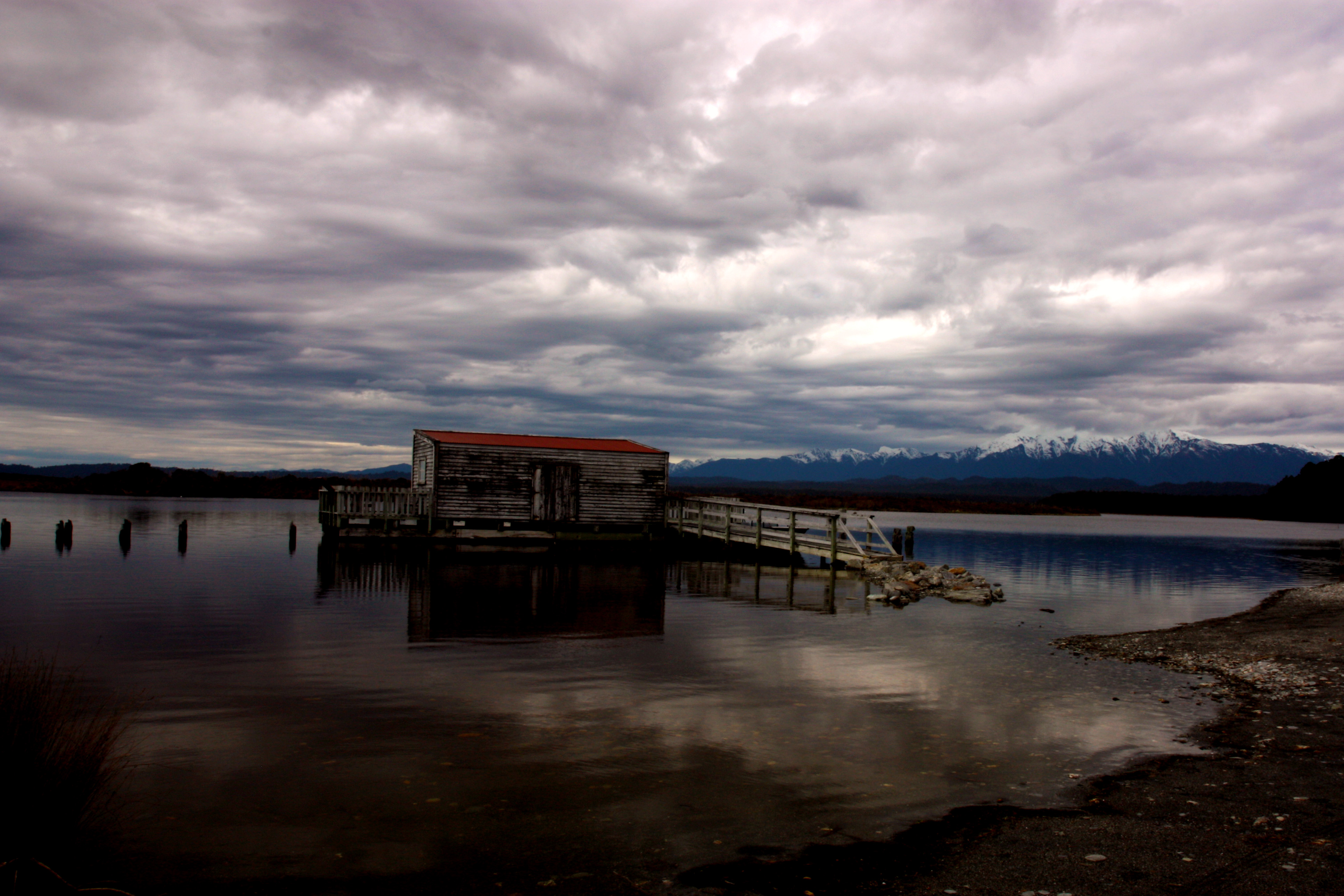 The mouth of the lagoon was blocked when we called down on a roadie today so the boathouse is isolated from the shore.